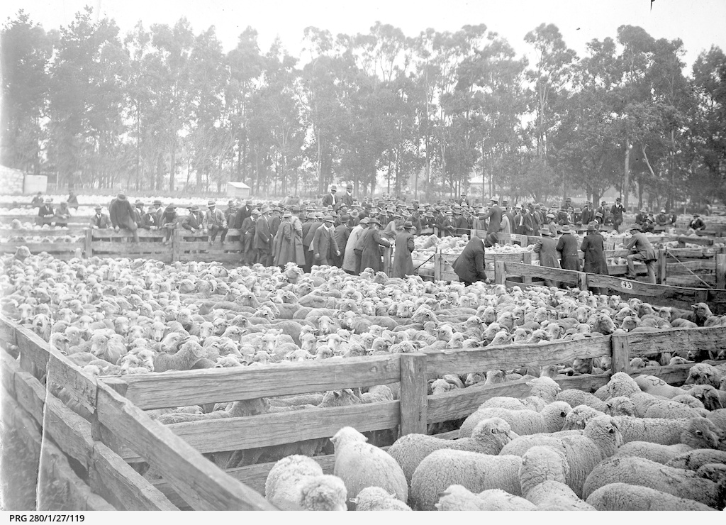 Graziers attending a sheep auction conducted by the Dalgety Company at stockyards at Jamestown, South Australia; Searcy notes that 10,000 sheep and 200 cattle were sold at this record auction